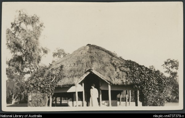 Meat house at Davenport Downs Station, south west Queensland, 1925